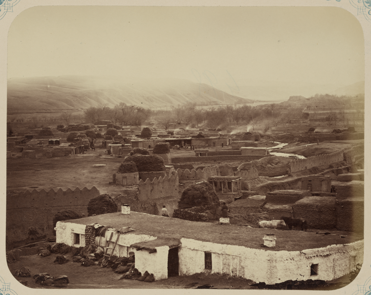 This photograph is from the ethnographical part of Turkestan Album, a comprehensive visual survey of Central Asia undertaken after imperial Russia assumed control of the region in the 1860s. Commissioned by General Konstantin Petrovich von Kaufman (1818–82), the first governor-general of Russian Turkestan, the album is in four parts spanning six volumes: “Archaeological Part” (two volumes); “Ethnographic Part” (two volumes); “Trades Part” (one volume); and “Historical Part” (one volume). The principal compiler was Russian Orientalist Aleksandr L. Kun, who was assisted by Nikolai V. Bogaevskii. The album contains some 1,200 photographs, along with architectural plans, watercolor drawings, and maps. The “Ethnographic Part” includes 491 individual photographs on 163 plates. The photographs show individuals representing the different peoples of the region (Plates 1–33); daily life and rituals (Plates 34–91); and views of villages and cities, street vendors, and commercial activities (Plates 92–163). Ethnographic photographs; Photographic surveys; Villages